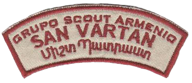 Logo of Armenian Scouts in Argentina